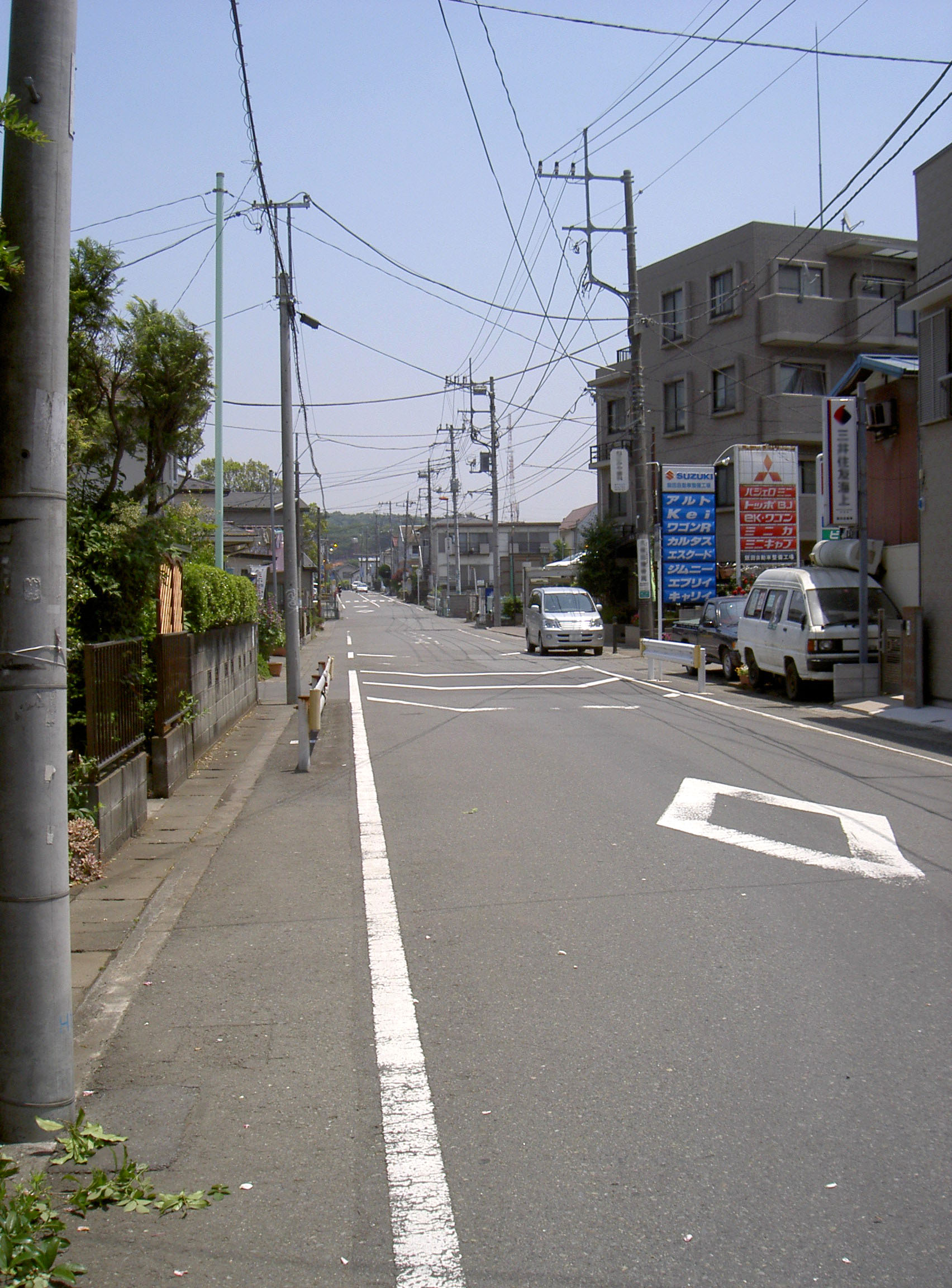 Kanagawa prefectural road route 509 ja: 神奈川県道509号相武台下停車場線